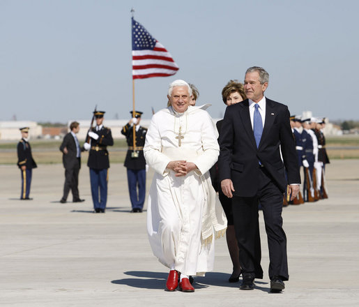 President George W. Bush walk with Pope Benedict XVI after the pontiff's arrival Tuesday, April 15, 2008, at Andrews Air Force Base, Maryland.